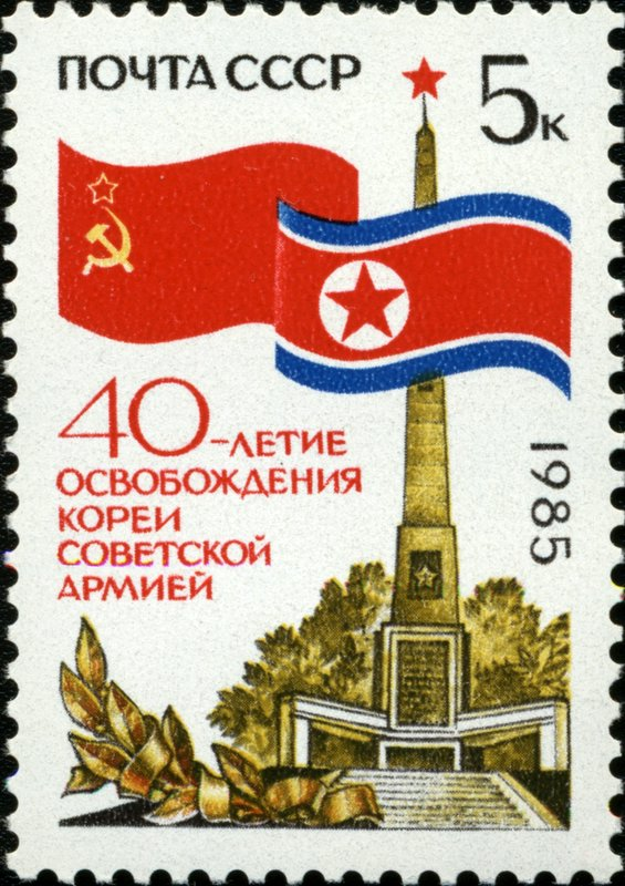 A USSR stamp, 40th Anniversary of Liberation of Korea. Date of issue: 1st August 1985. Designer: A. Shmidshtein. Michel catalogue number: 5536. 5 K. multicoloured. Liberation monument (Pyongyang) and state flags.